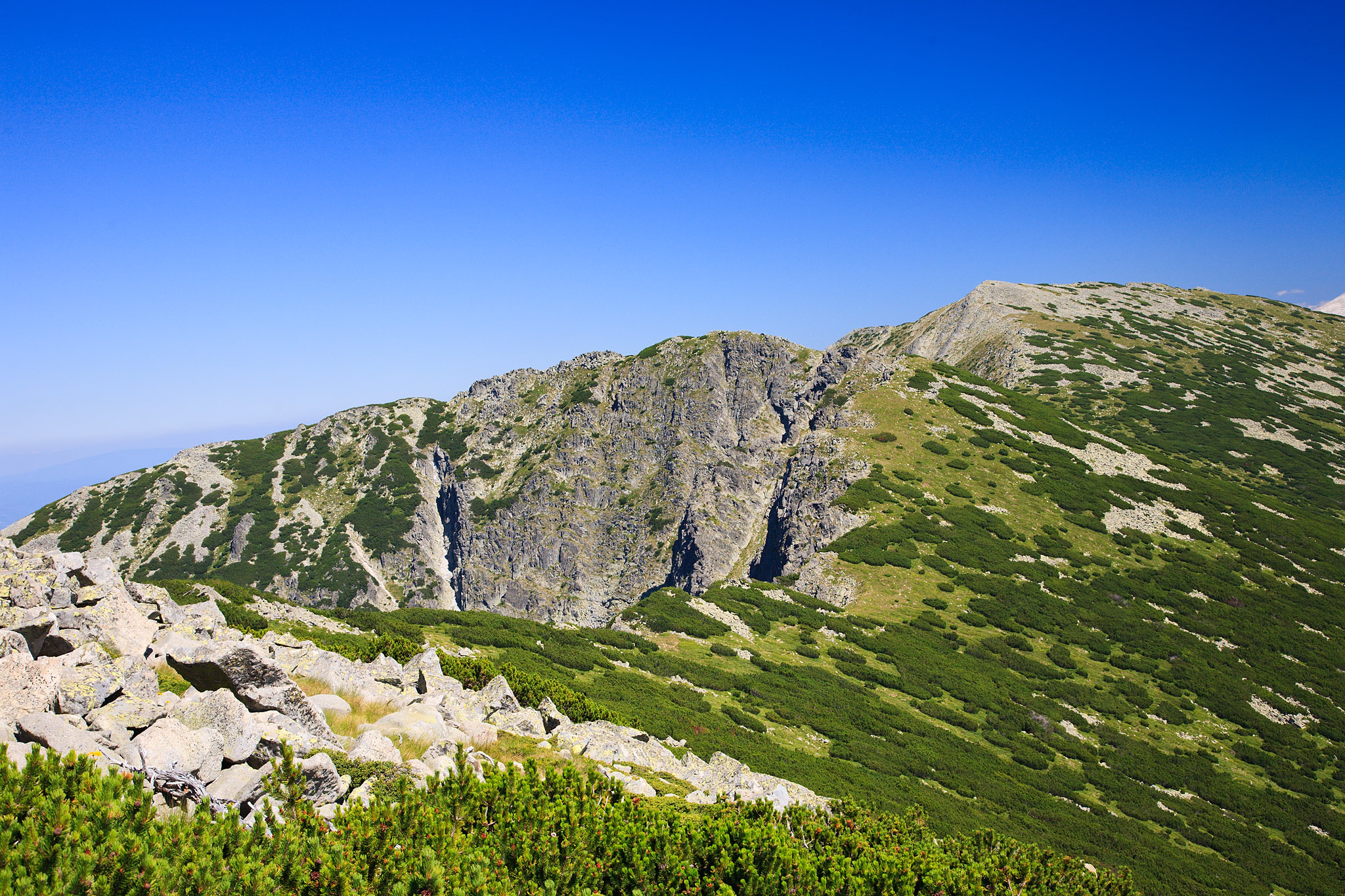 Pleshki vrah - a peak in Pirin mountains, Bulgaria